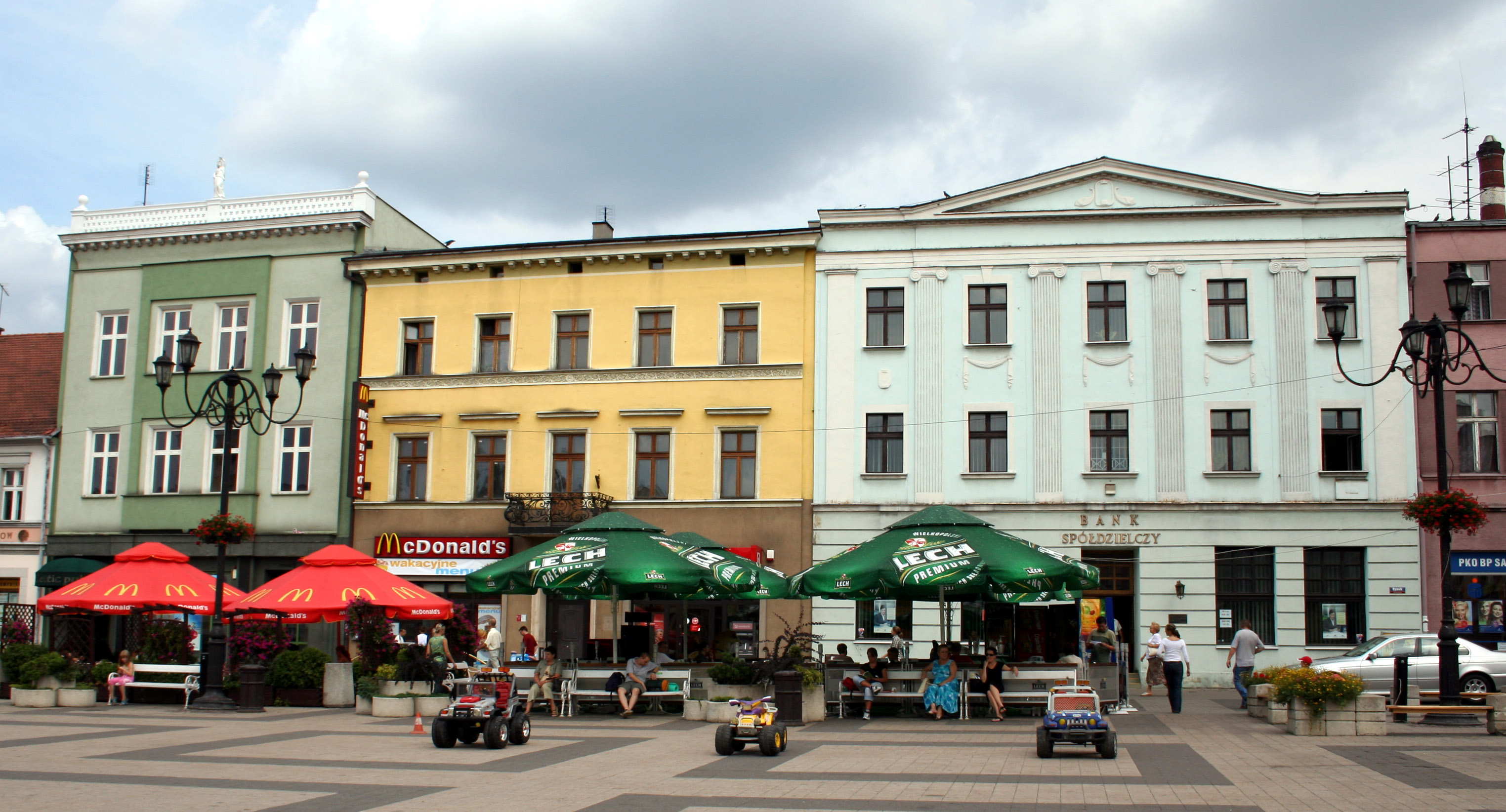 Main Market Square in Rybnik, southern Poland